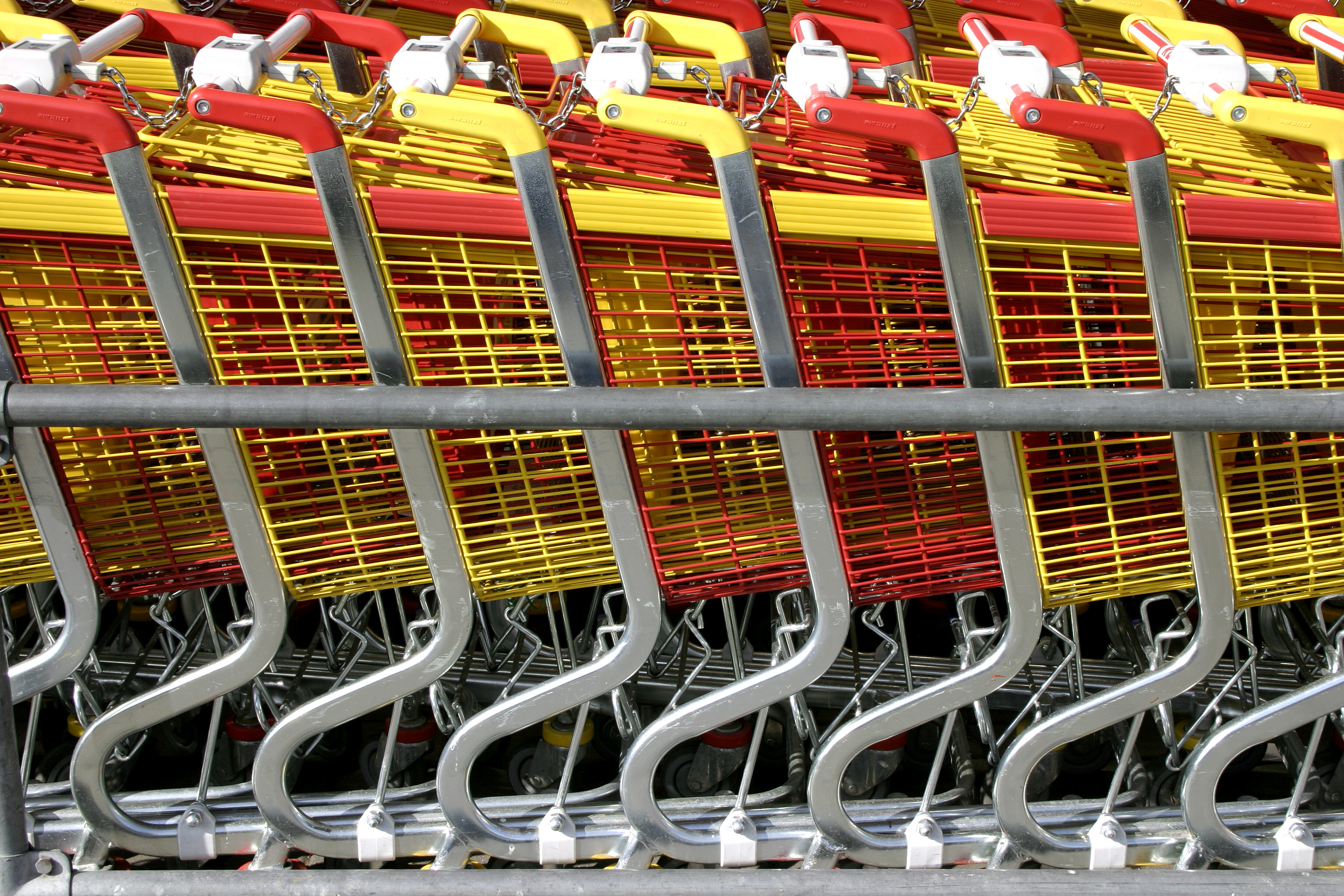 Shopping carts